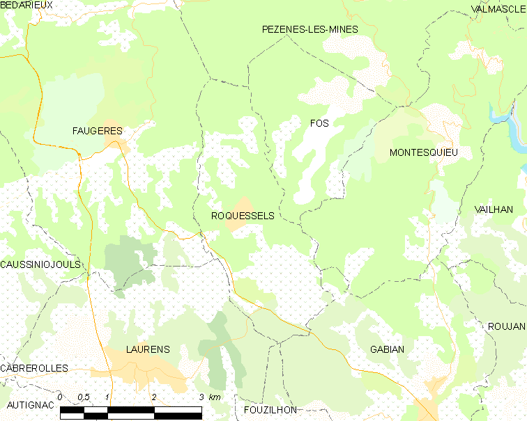 Map commune FR insee code 34234.png - Roquessels